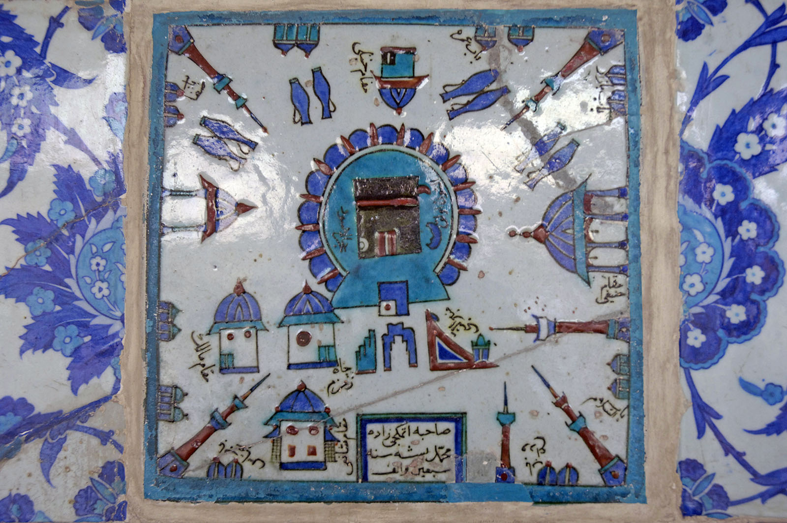 A visit to the mosque confronts a viewer with a huge amount of specimens of Iznik tiles from the best period. These show the Kaaba and the mosque in Mecca The mosque was being restored in the later 2010's and may remain closed for some time.